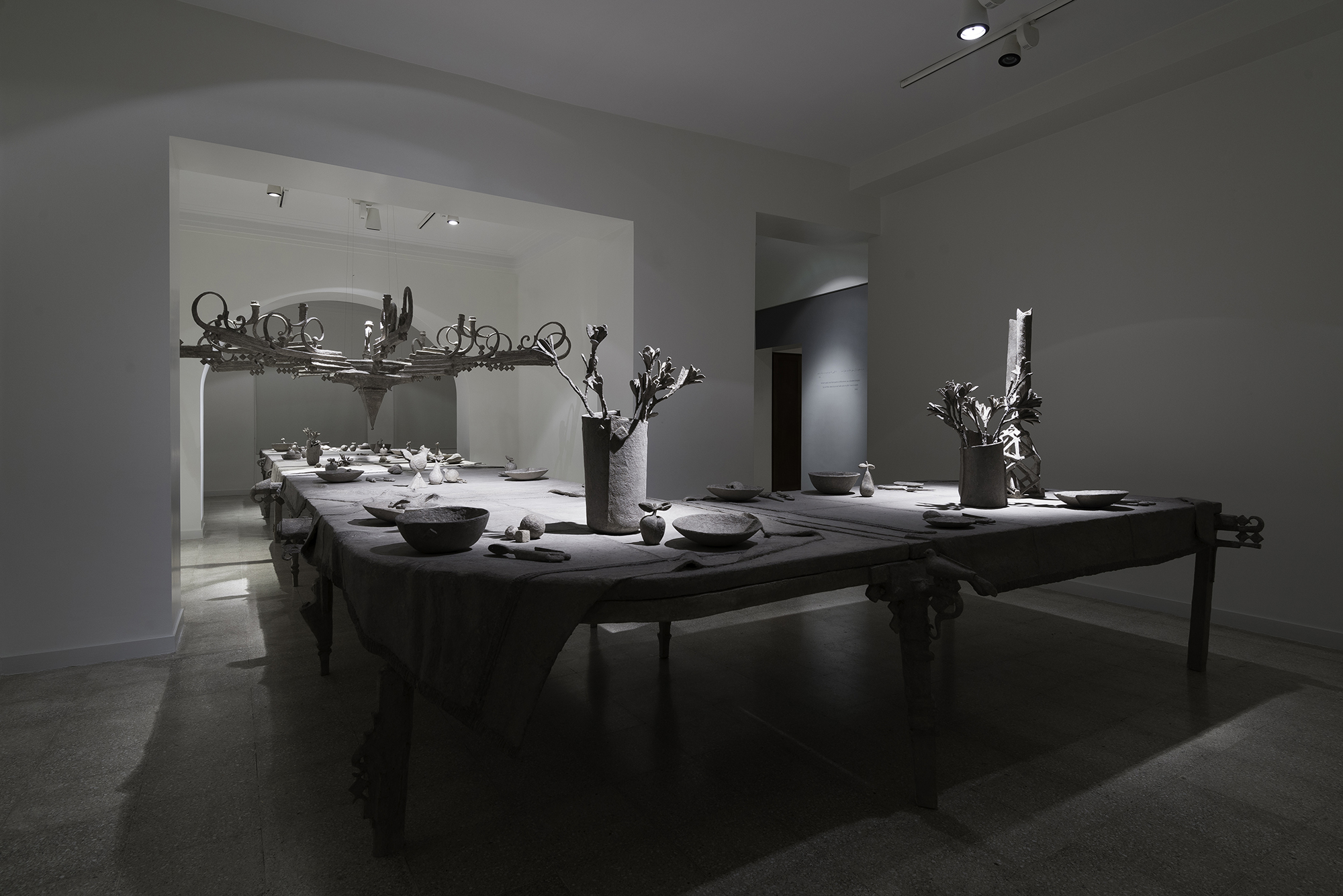 work of art